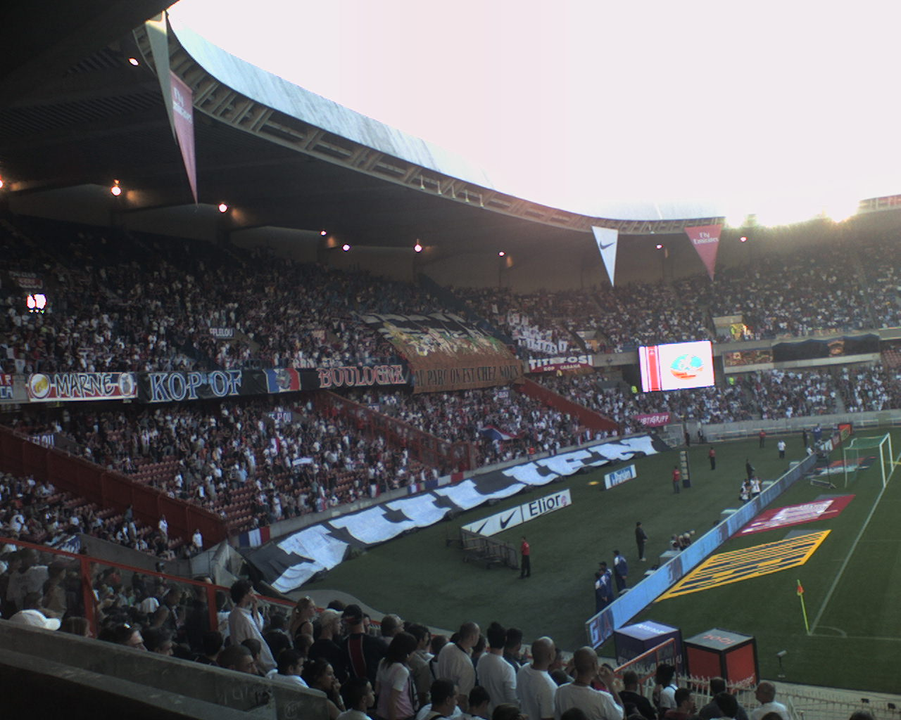 The Boulogne stand on first match of the season Paris Saint-Germain - FC Sochaux.